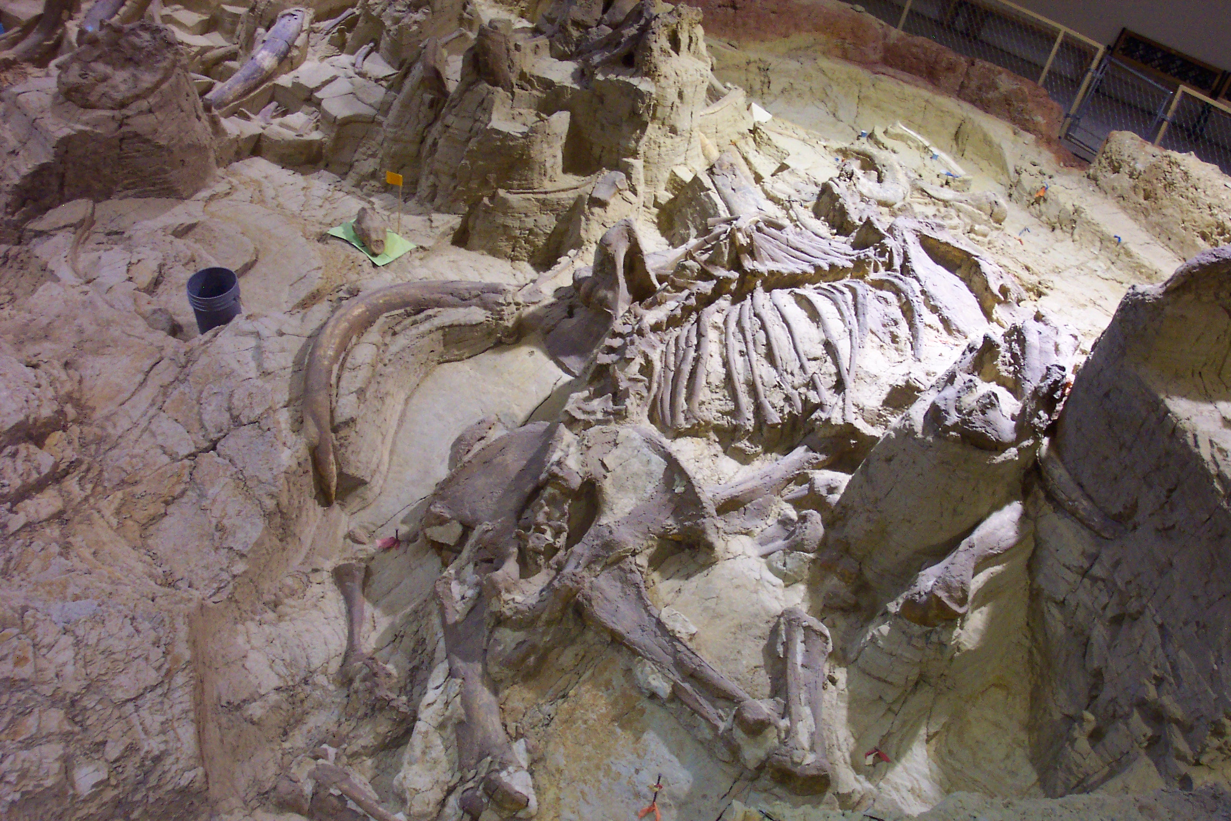 The Mammoth Site at Hot Springs, South Dakota is a paleontological site where mammoths and other megafauna got trapped in a sinkhole and drown about 26,000 years ago. Their bones were buried and preserved. The male specimen seen here is nicknamed "Murray". Today a museum has covered the site with a roof and gives tours.